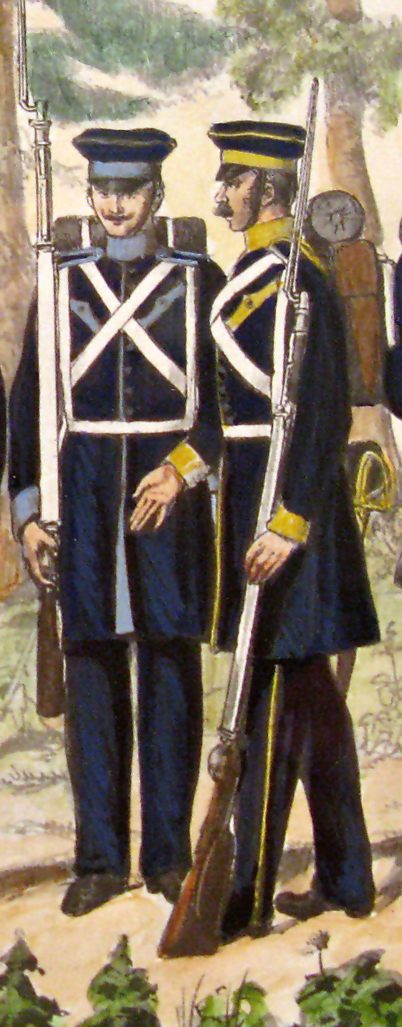 14th, 15th Infantry Regiment of Polish Army of November Uprising